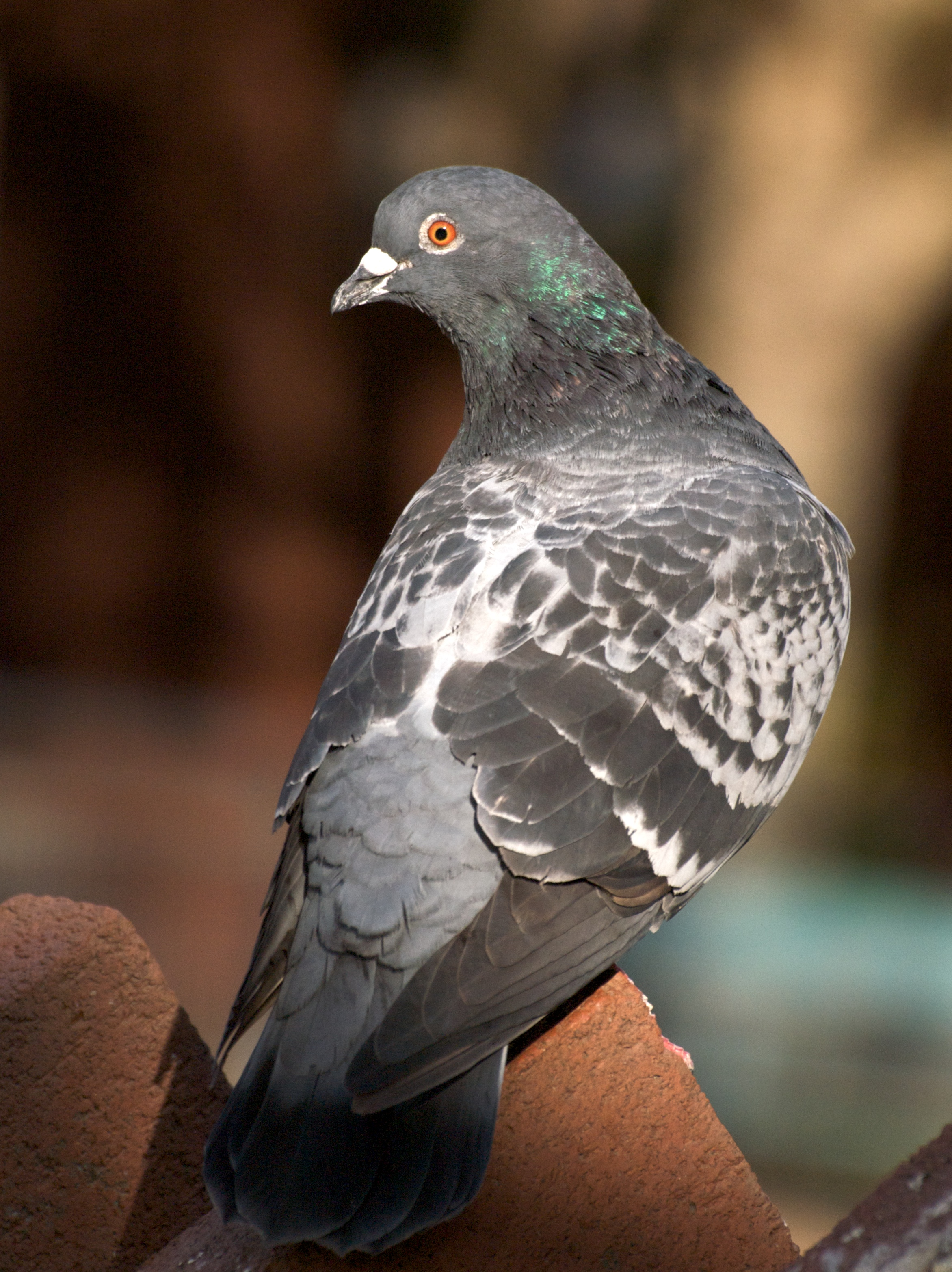 Yep, I do love the much-maligned rock pigeon.